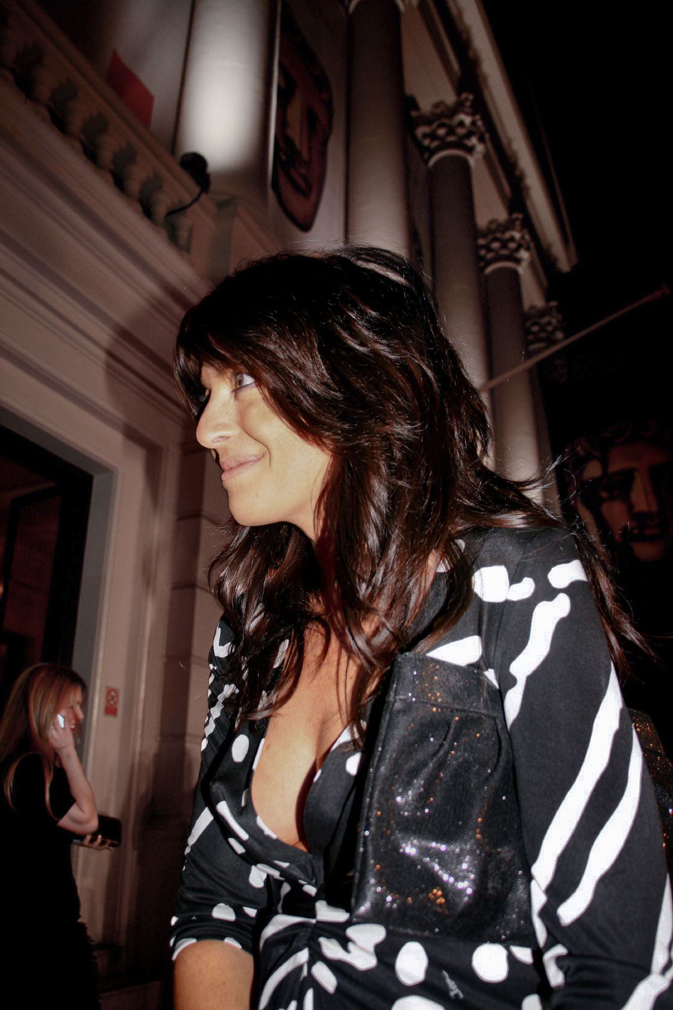 Claudia Winkleman at the BAFTA awards in 2008